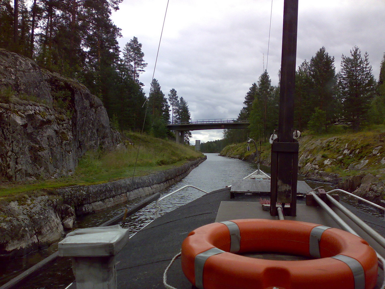 Varkaantaipale open canal in Ristiina, Finland